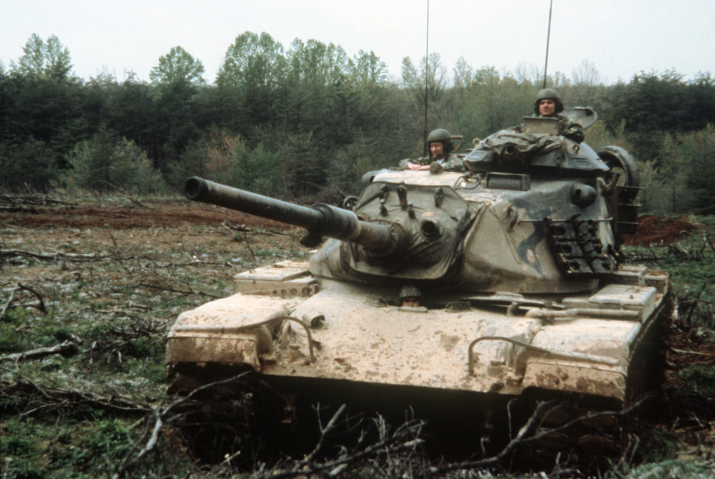 An M-60A1 tank crew from the Artillery Demonstration Unit gives support to Marine officer candidates who are training in combat tactics.